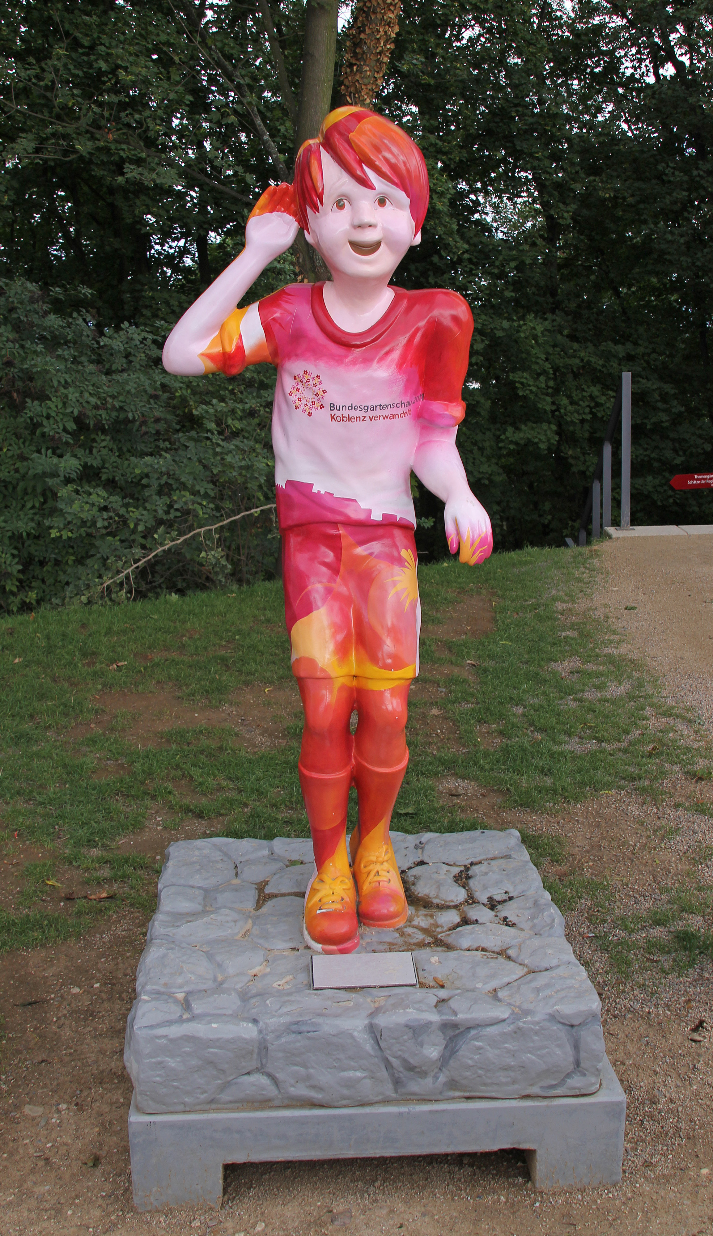 Federal Horticultural Show 2011 in Koblenz - Ehrenbreitstein Fortress